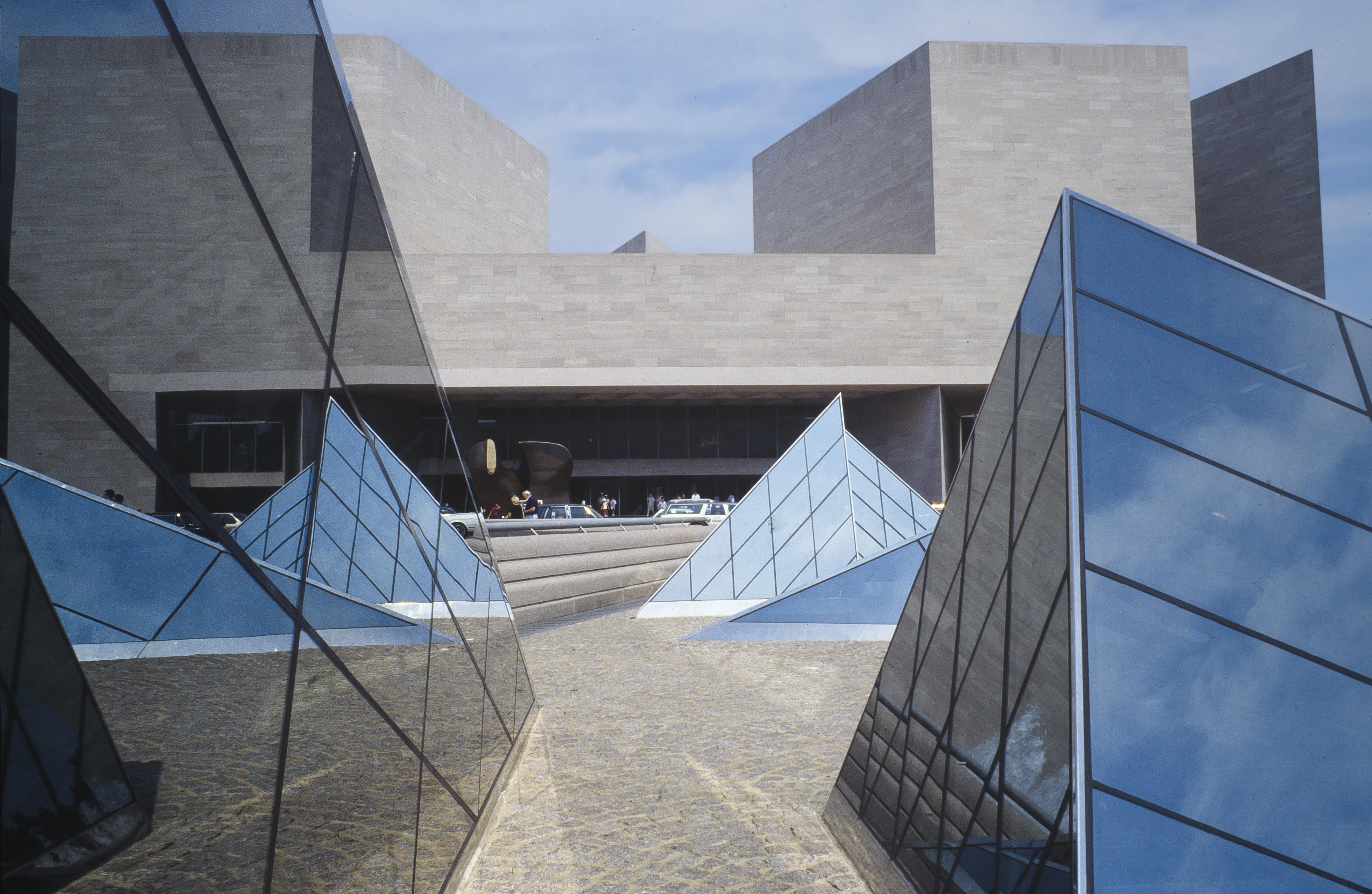 National Gallery of Art, East Building, Washington, D.C.